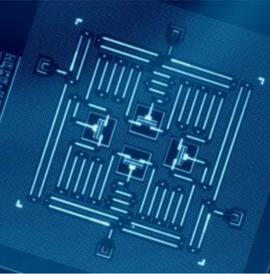 A device consisting of four transmon qubits, four quantum busses, and four readout resonators fabricated at IBM and appearing in the paper "Building logical qubits in a superconducting quantum computing system" by Jay M. Gambetta, Jerry M. Chow and Matthias Steffen. (npj Quantum Information (2017) 3:2